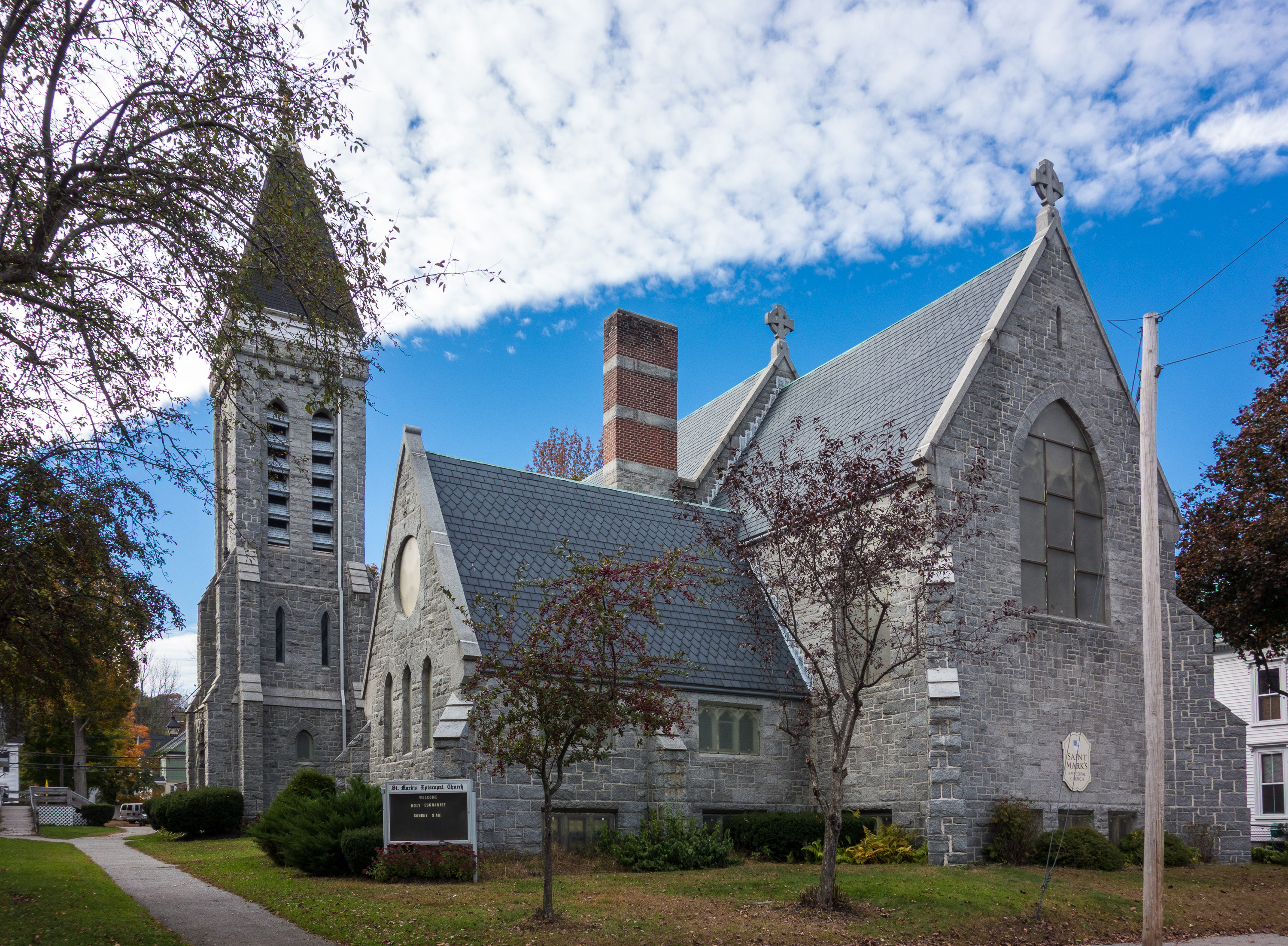 St. Mark's Episcopal Church (Augusta, Maine), photographed in 2013.